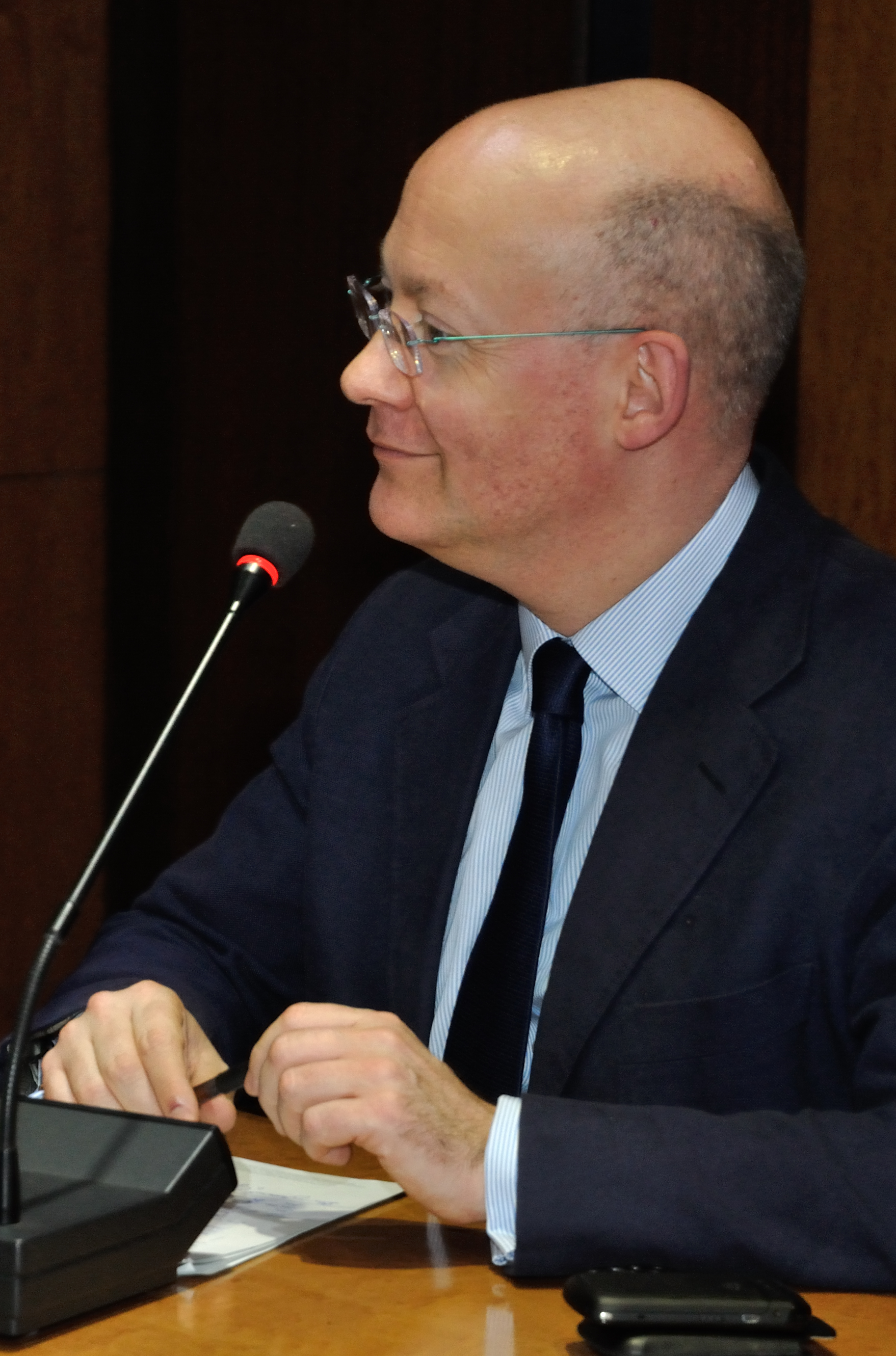 Ian Blatchford is the Director of the National Museum of Science and Industry, London.